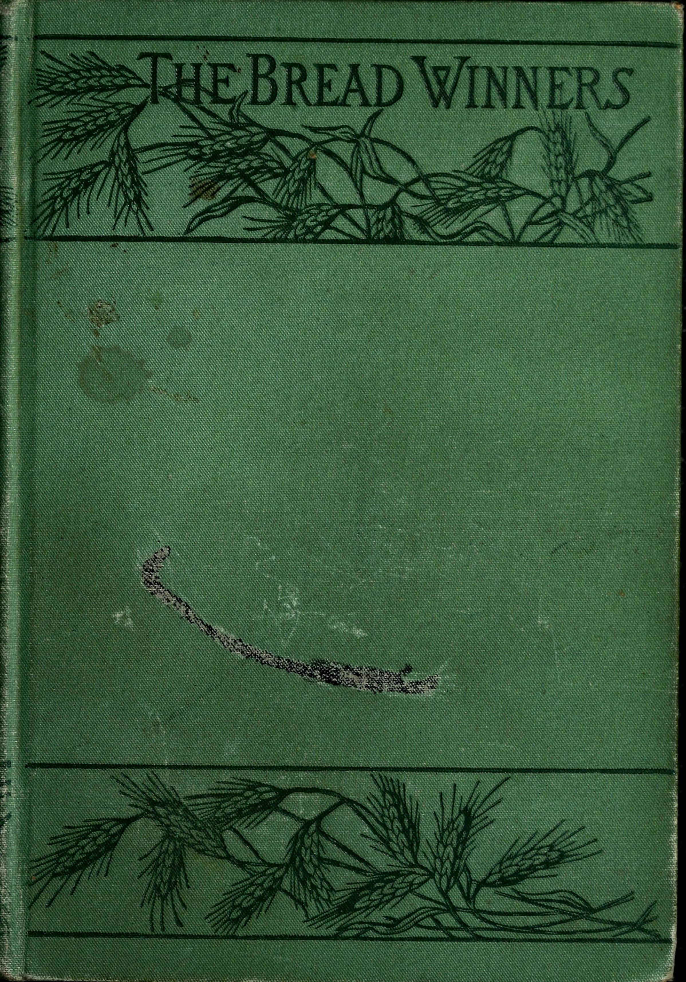 Cover of the first edition of John Hay's The Bread-Winners, a Social Study (1883). Hay was anonymous for all early printings of the book, up until 1916.